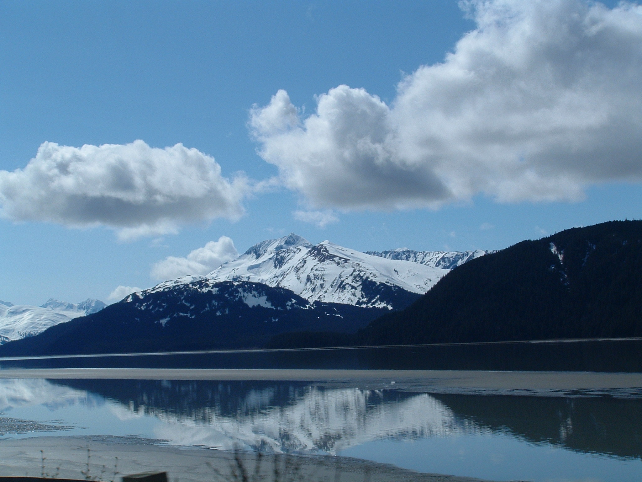 Turnagain Channel in Anchorage, Alaska. In a low tide the water can go down up to 30 feet and rush in again without warning during high tide. There is about 1000 feet deep of mud at the bottom.